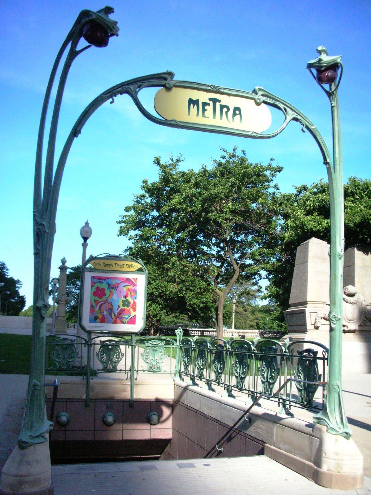 Hector Guimard entrance (Paris metro) at Van Buren Street station (Chicago metro).